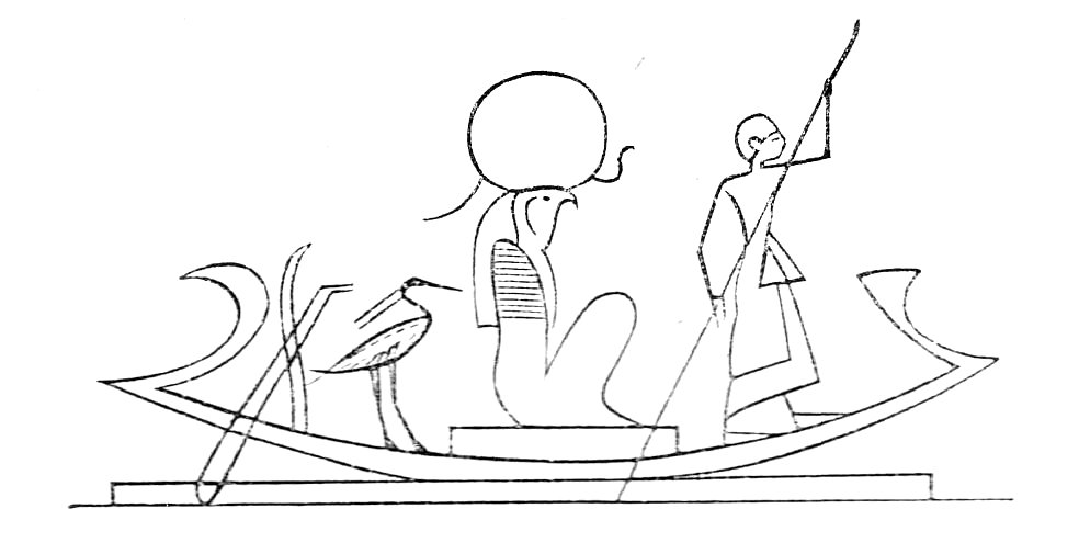 Illustration from "Illustrerad verldshistoria utgifven av E. Wallis. volume I": .The solar boat. (Chapter 100 in the Book of the Dead.)